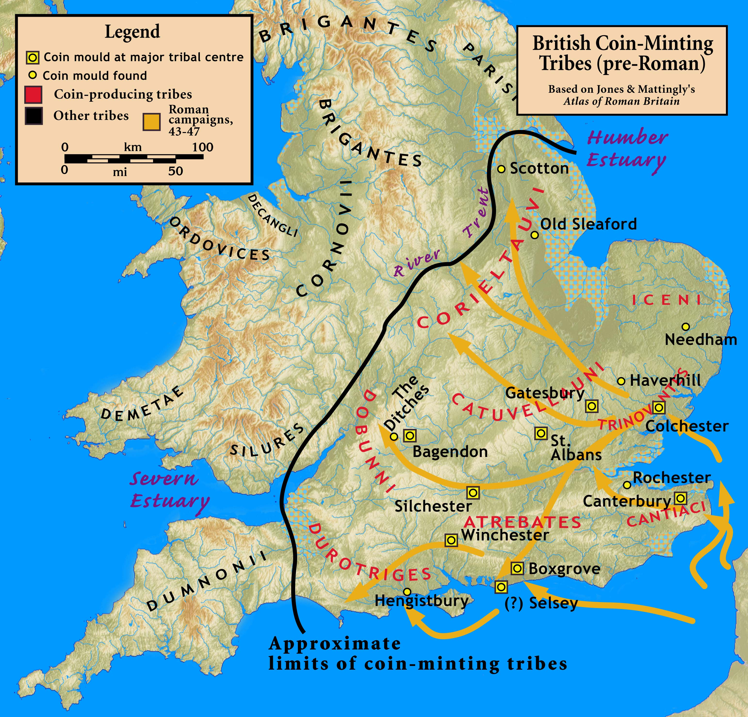 British Coin-Minting Tribes (pre Roman)